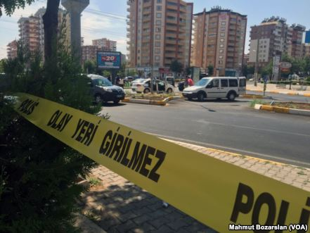 Aftermath of PKK attacks in the city of Diyarbakır, Turkey in August 2015